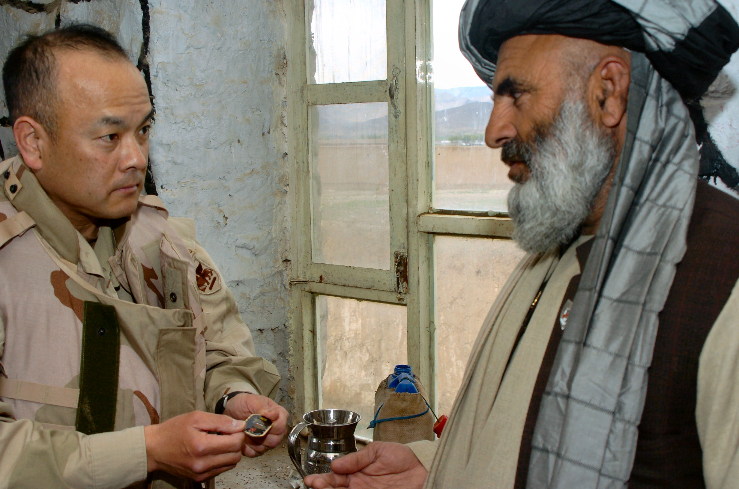 CEKZAI, Afghanistan (March 21, 2005) – The commander of Combined Joint Task Force 76 Maj. Gen. Jason Kamiya (left), presents a coin to Oruzgan Province governor Hajji Jan Mohammed, at the conclusion of a meeting to discuss concerns and solutions to recent flooding that occurred in the village of Cekzai, Afghanistan, March 20. U.S. Army photo by Spc. Jerry T. Combes.